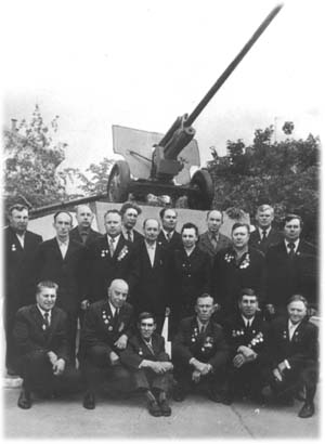 Veterans at the monument to his division